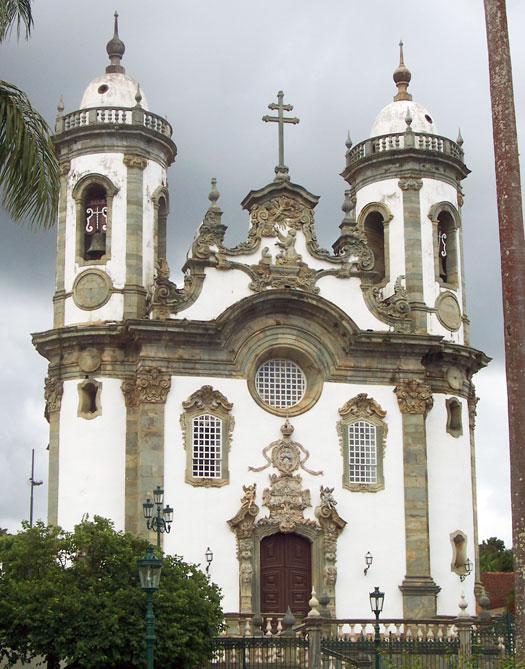 Igreja de São Francisco de Assis. Taken with own camera, March 2005.